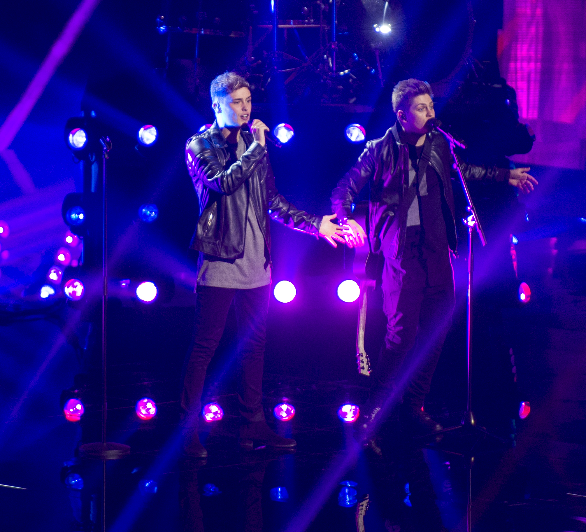 Joe & Jake representing United Kingdom with the song "You're Not Alone" during a rehearsal for "the Big Five" in the Eurovision Song Contest 2016 in Stockholm. (Help translate this text)